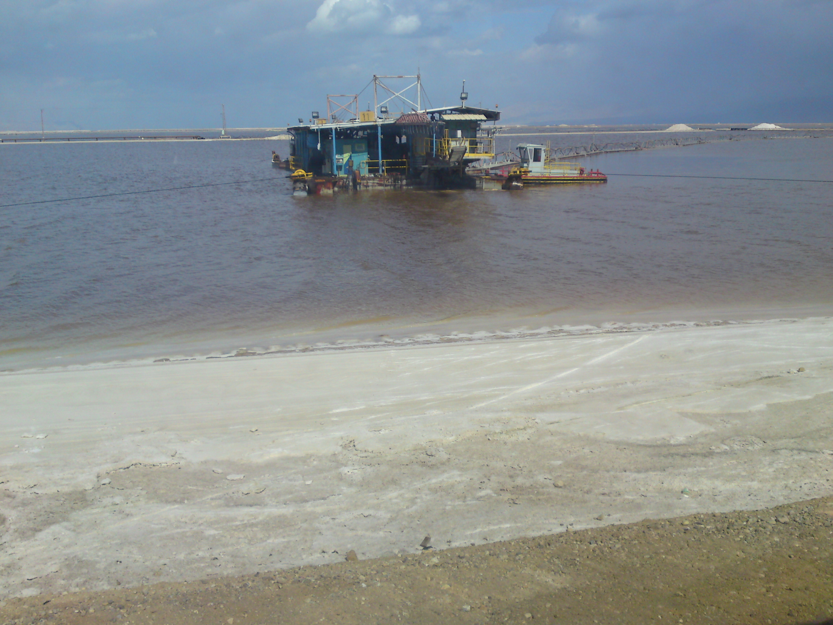 Industry in Israel